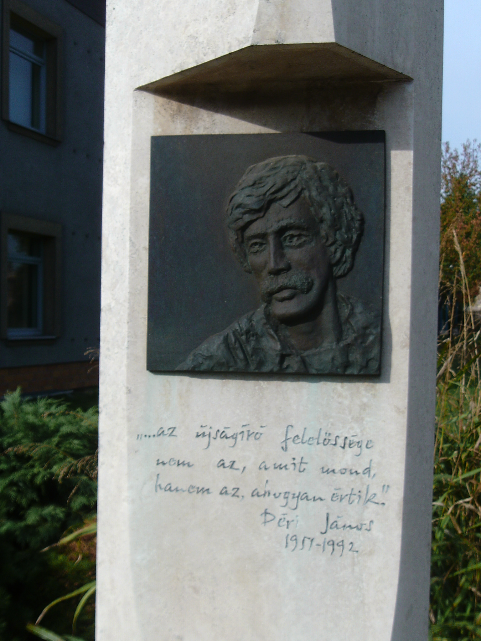 College of Dunaujvaros, Dunaujvaros, Hungary